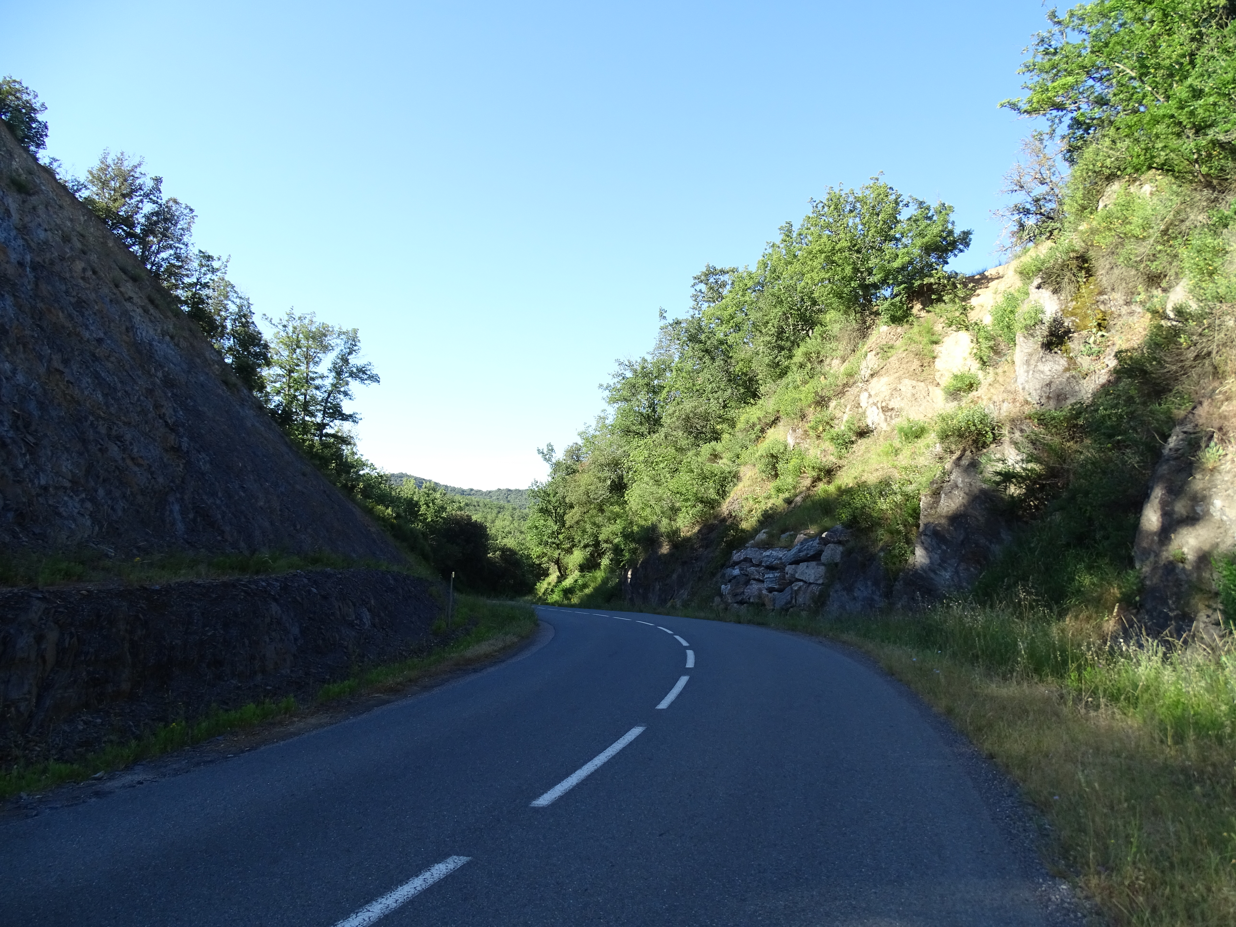 D613 at Col de la Tranchée to the south in June 2018